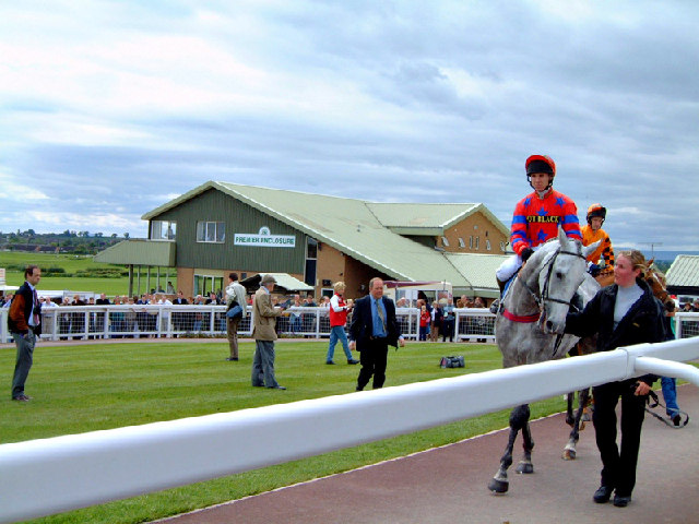 Hereford Racecourse. The majority of the racecourse is within SO5041, but a small part overlaps into 4941 on the left. Hereford's course is right-handed with hurdles and fences.